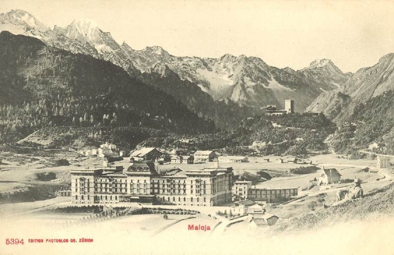 The Maloja Palace hotel, Switzerland, in about 1890